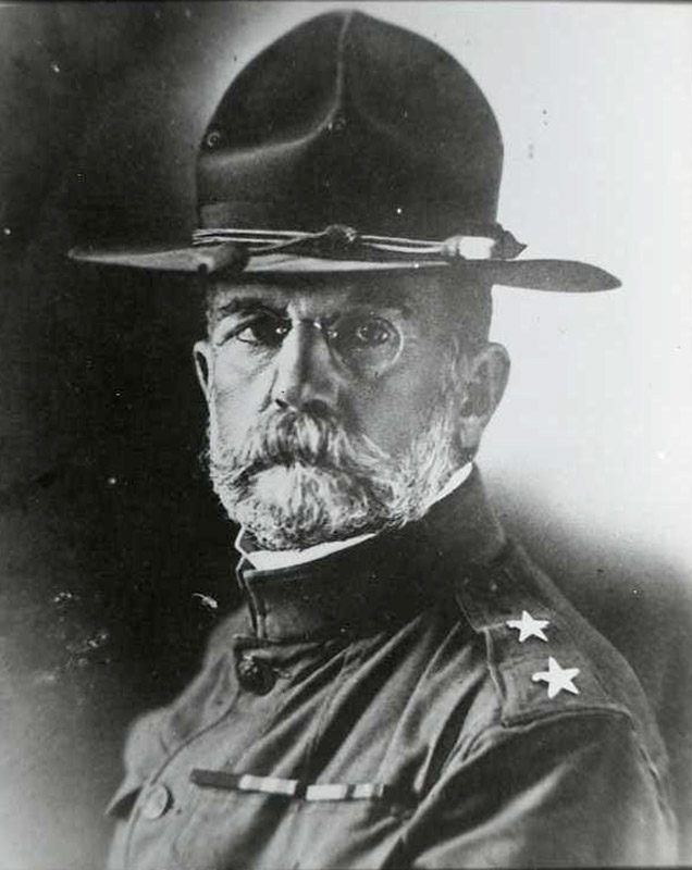 Brig. Gen. Augustus P. Blocksom briefly commanded the US Army, Pacific (Hawaiian Department) during 1918 until his retirement on 7 November. A graduate of the US Military Academy in 1877, he participated in various Indian campaigns, the Spanish-American War, the Chinese Boxer rebellion, and the Philippine insurrection of 1900-1902. Blocksom's Indian campaigns were against the Apaches in Arizona and the Sioux in South Dakota. In the Spanish-American War he was wounded in the assault on San Juan Hill. For the latter action and for his leadership of the 6th Cavalry Squadron against the Boxers he was awarded the silver star citation. Before his retirement in 1918, he received a promotion to major general. He died on 26 July 1931.